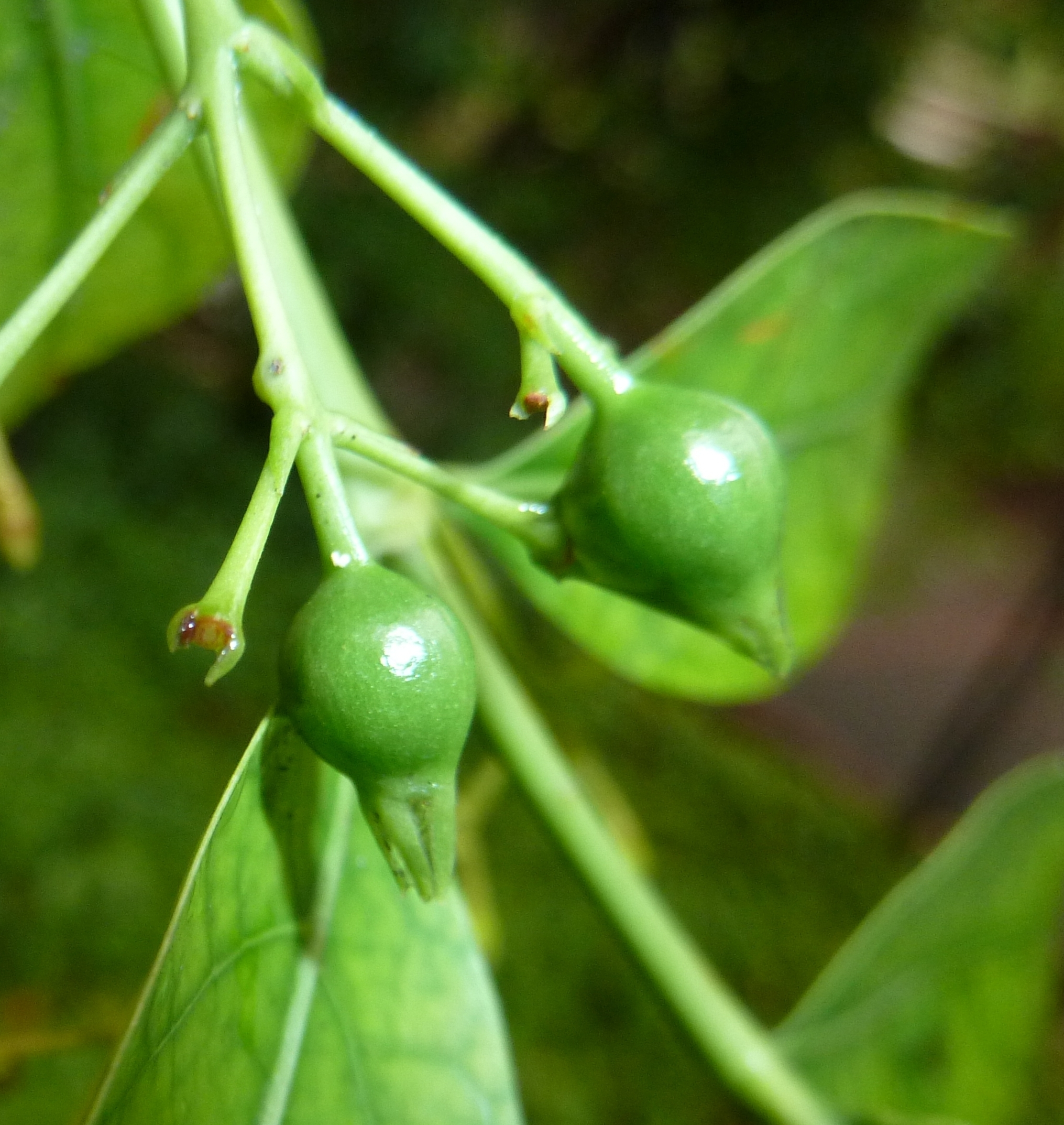 Fruit of a Rhino-coffee in the Manie van der Schijff Botanical Garden, University of Pretoria, South Africa